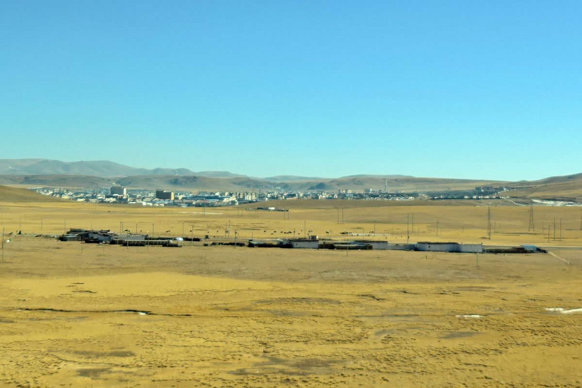 Nagqu Town, Seni District, Nagqu (altitude ~4500m)